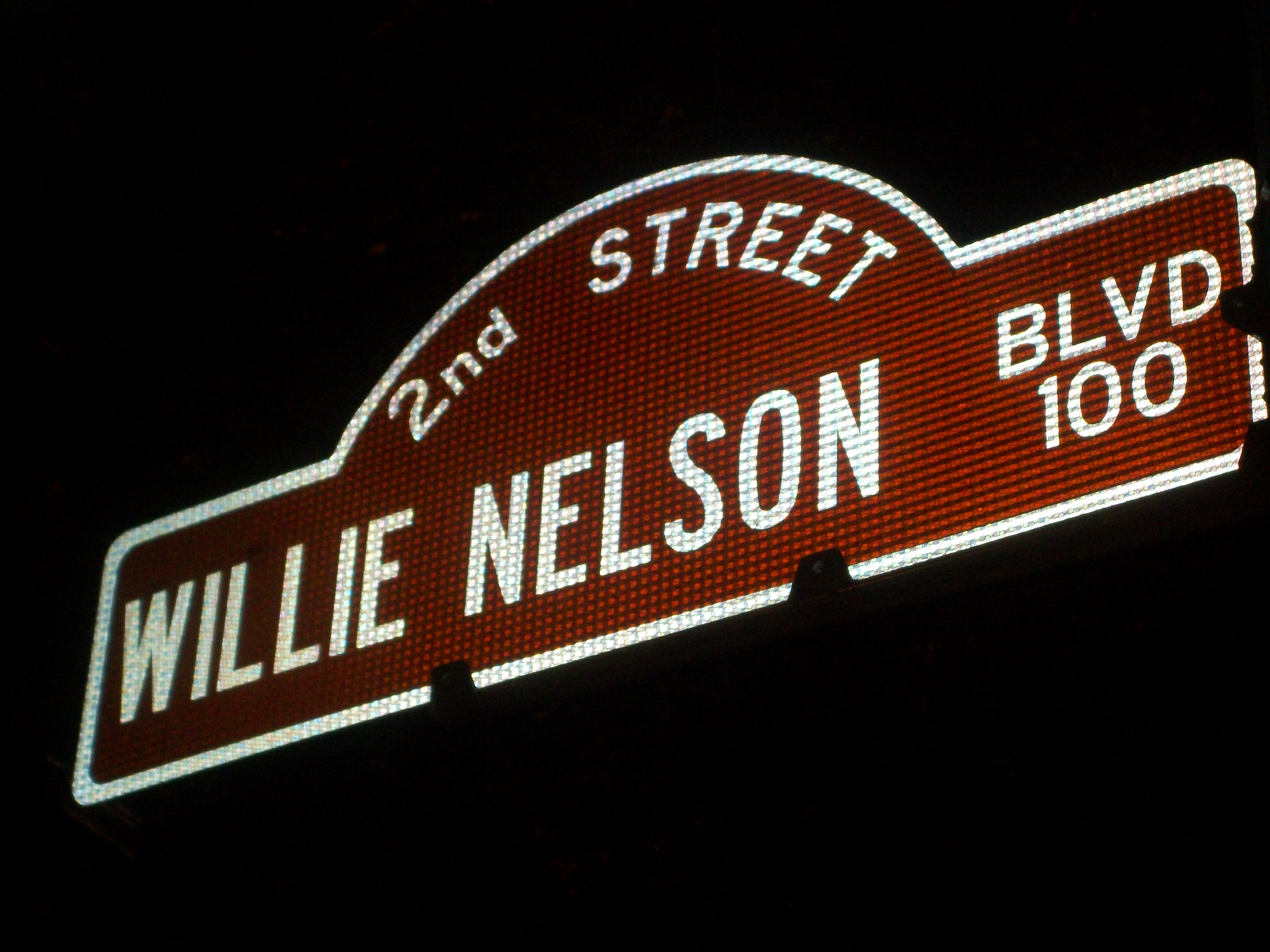 Willie Nelson Boulevard sign.